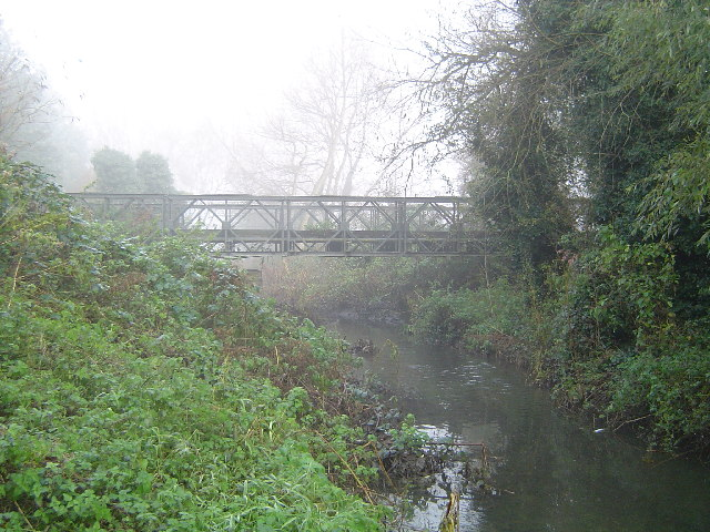 Cheshunt: Bailey bridge over the Small River Lea The Cadmore Lane Bailey bridge over the Small River Lea viewed looking northwards and upstream. The bridge was probably first constructed to allow vechicular access to the gravel workings in this area